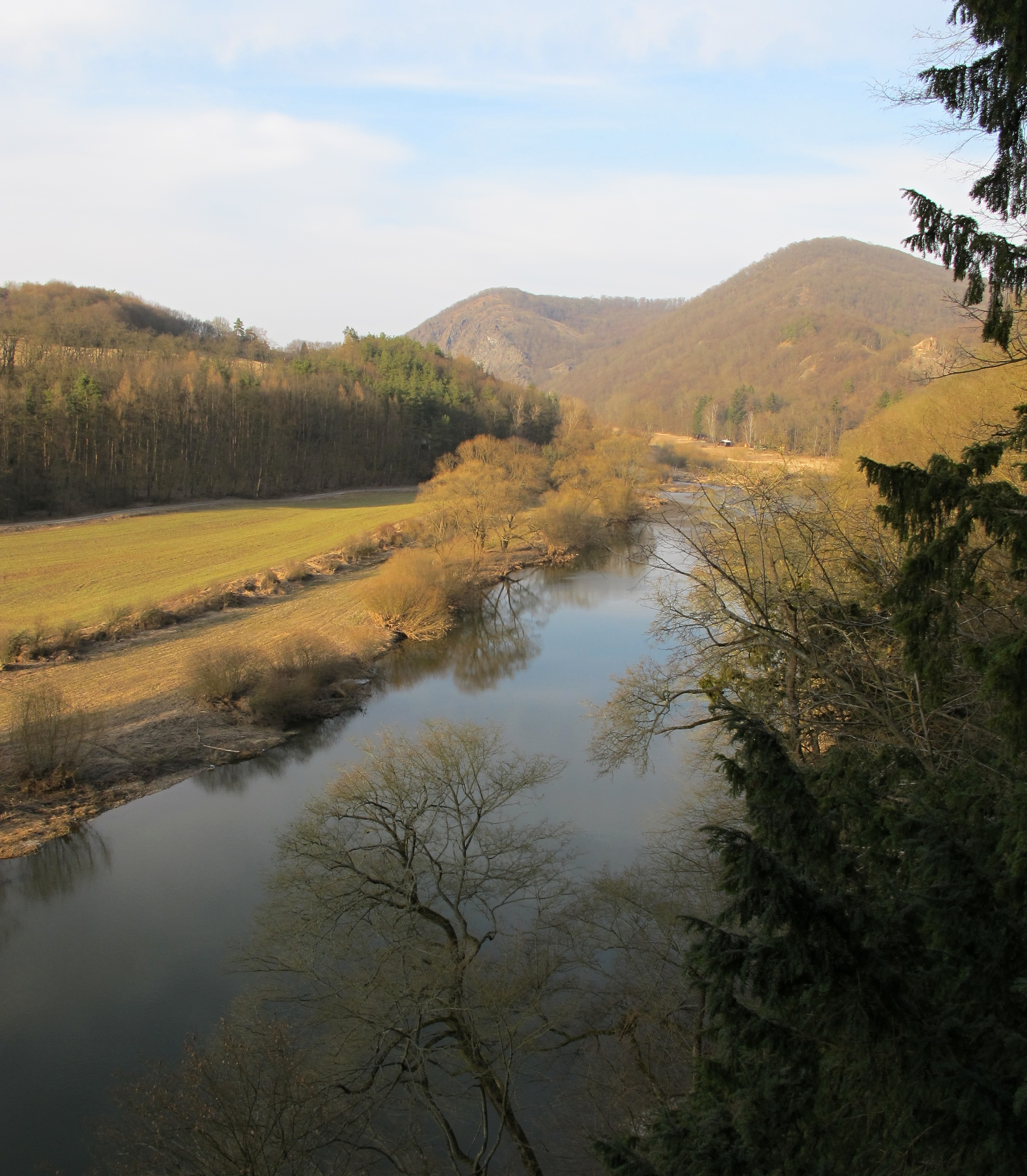 river Berounka and Nature Reserve Týřov (left rivrside) in Rakovník District